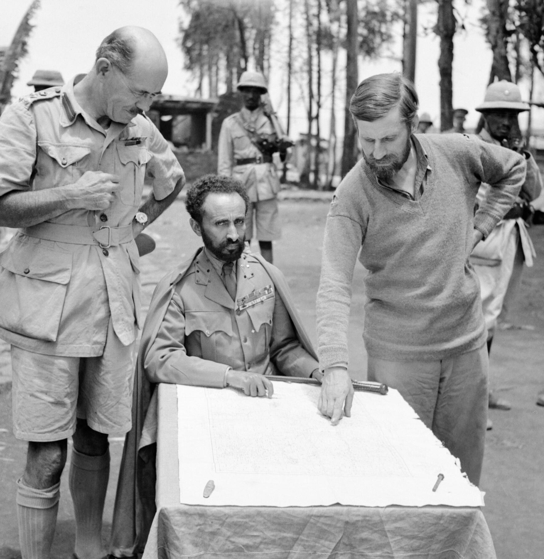 Haile Selassie, Emperor of Abyssinia, with Brigadier Daniel Arthur Sandford (left) and Colonel Wingate (right) in Dambacha Fort, after it had been captured, 15 April 1941. The Emperor of Abyssinia (modern day Ethiopia) with Brigadier Daniel Arthur Sandford on his left and Colonel Wingate on his right, in Dambacha Fort after it had been captured, 15 April 1941.